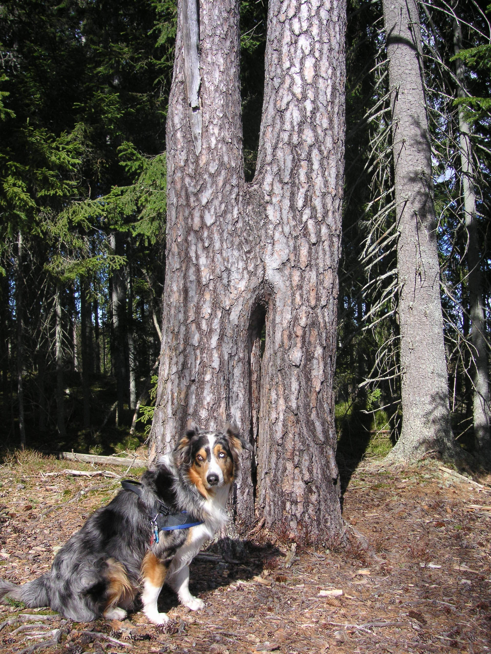 Smöjtall i Dalarna, Skattlösberg (according to folklore tradition a child with rachitis may be cured if dragged through this 'magic pine')